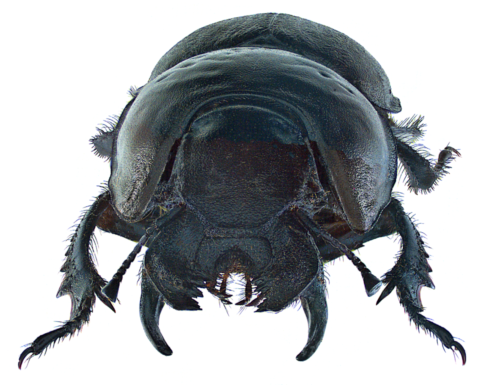 Family: Geotrupidae Size: 23,0 mm (15 to 24 mm) Origin: Pontic Pannonian, Europe, Russia Ecology: lives in sandy steppe areas, dig deep tunnels in the soil of untilled areas. At the end of the tunnel the female arranges side chambers in which she lays eggs. Then the beetles fill the chambers with young leaves, which serve as food for the larvae. Location: Russia Volgograd, Kamyshensky, Golubaja river valley, 150 m leg. E.Alexeer, 15.-19.IV.2000; det. U.Schmidt, 2015 Photo: U.Schmidt, 2016